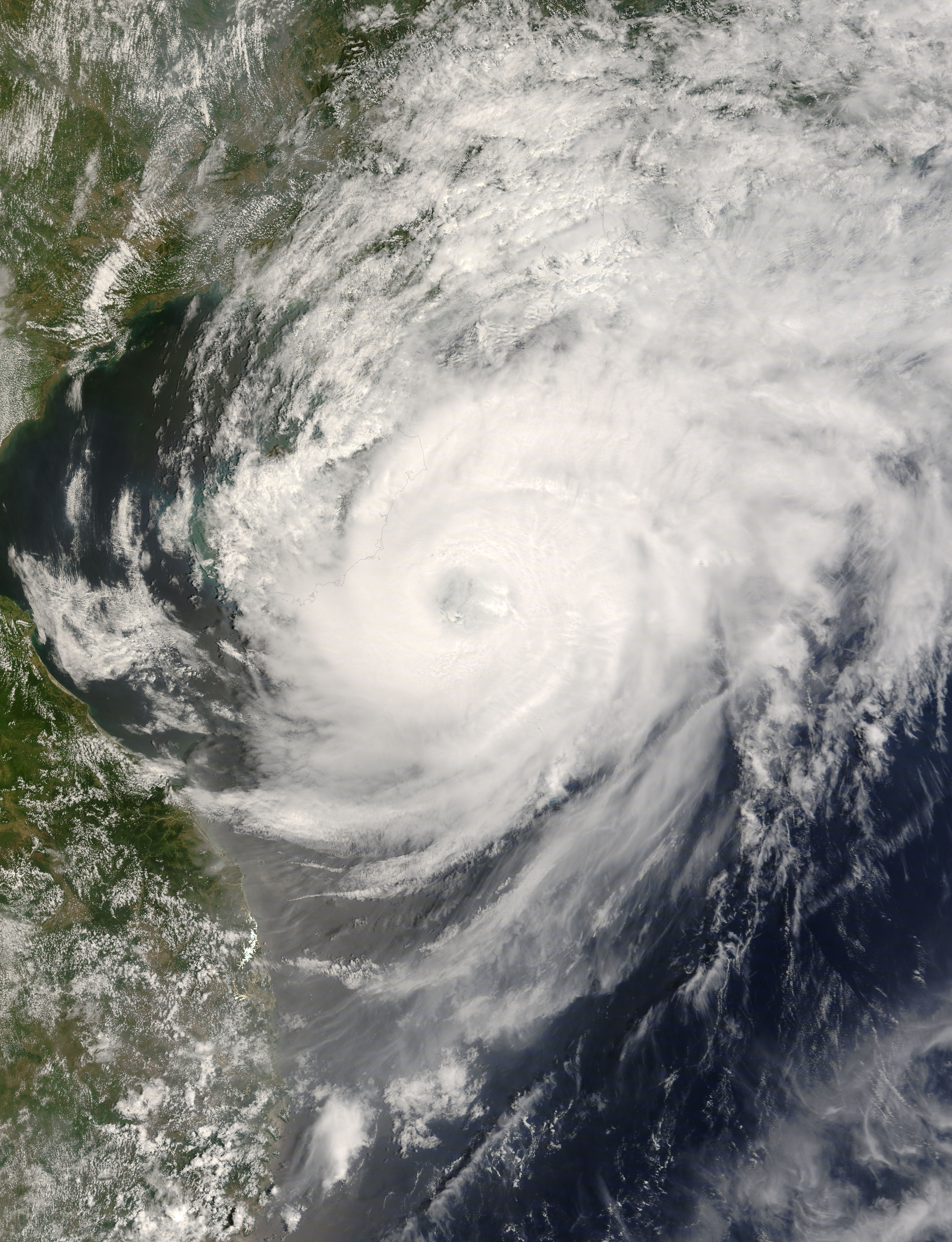 Typhoon Neoguri, seen from MODIS on the Terra satellite at 0330Z April 18.